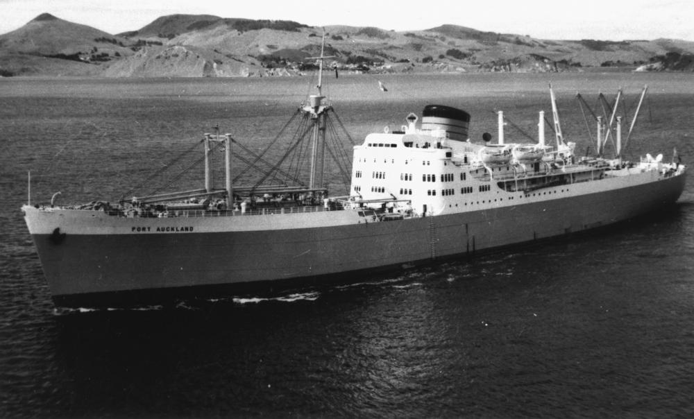 11,945 GRT cargo ship Port Auckland. (From description supplied with photograph.) Built in 1949 by Hawthorn, Leslie & Co of Hebburn for Port Line. Sold in 1976, converted into a livestock carrier and named Masha'allah. Scrapped in Taiwan in 1971.